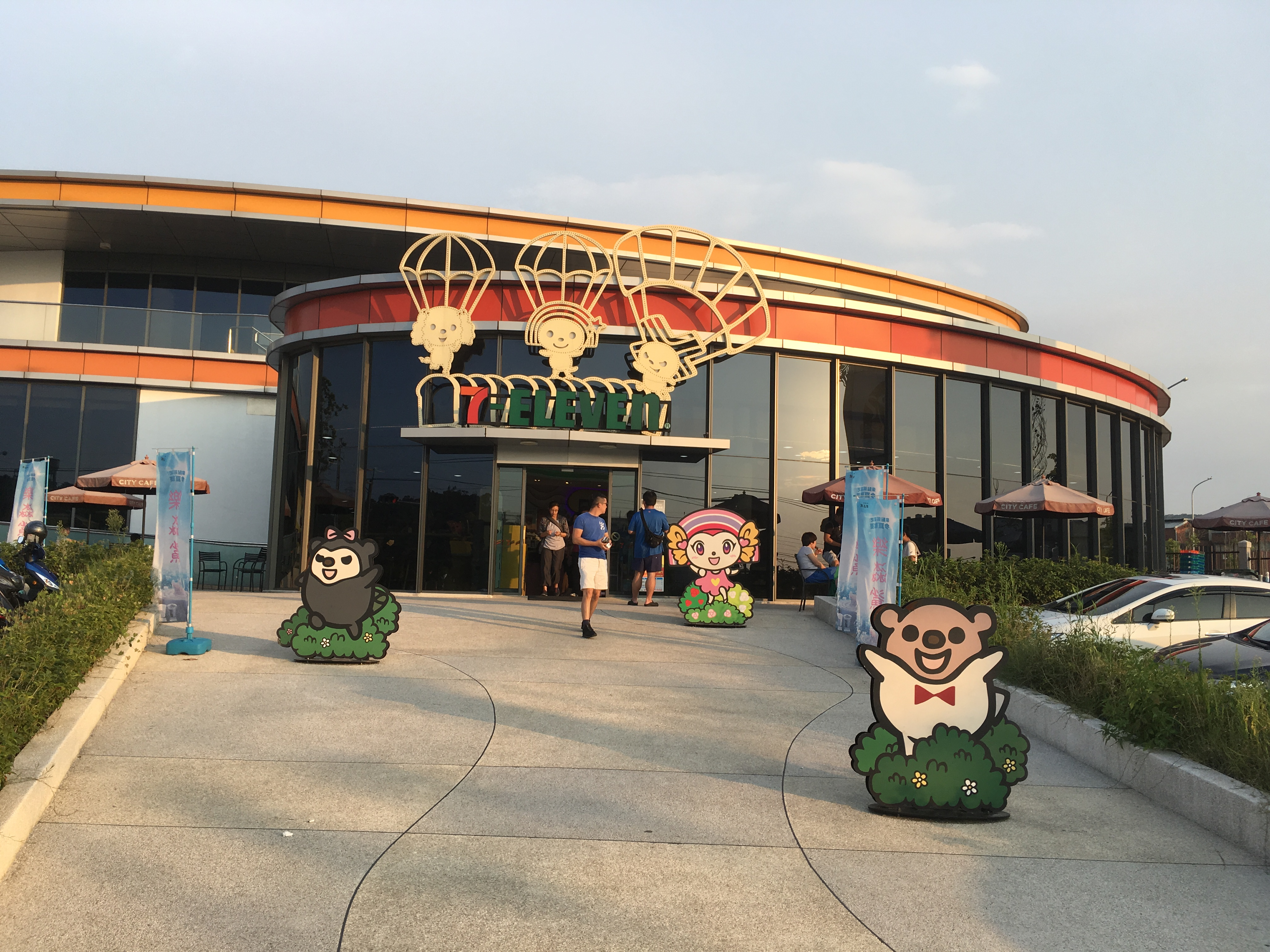 7-eleven Hukou factory outlets